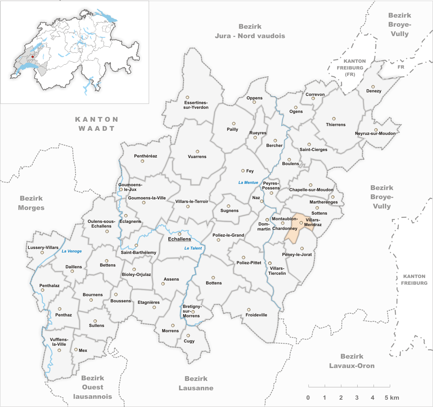 Municipality Villars-Mendraz